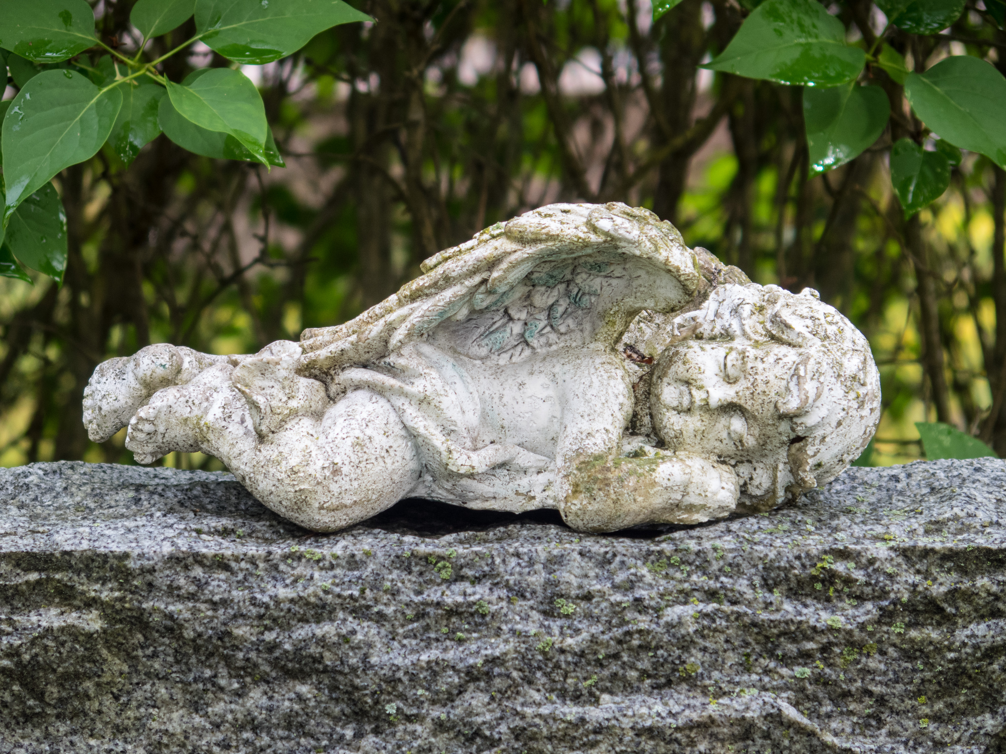 A small figurine of a sleeping angel on a gravestone in Angelniemi churchyard, Kemiö island, municipality of Salo, Finland.